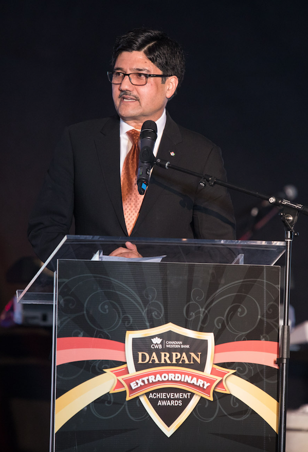 Winner of the 2017 Industry Marvel Award